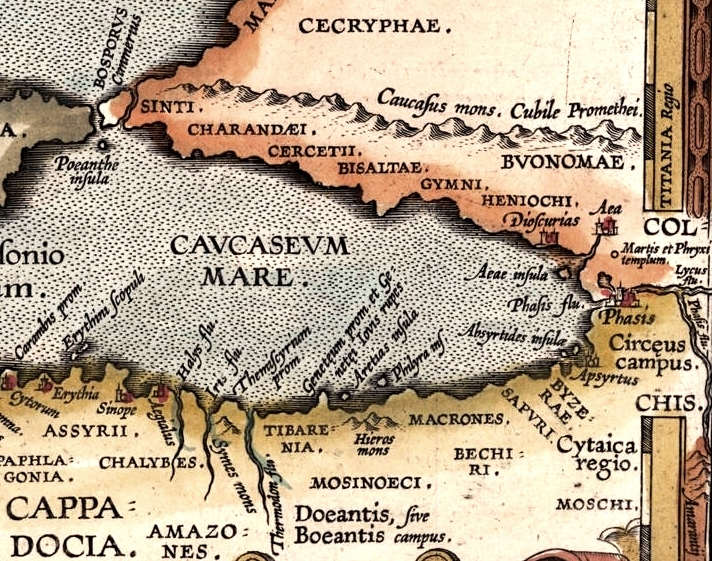 Scan of map from Ortelius "Parergon" published in 1624.